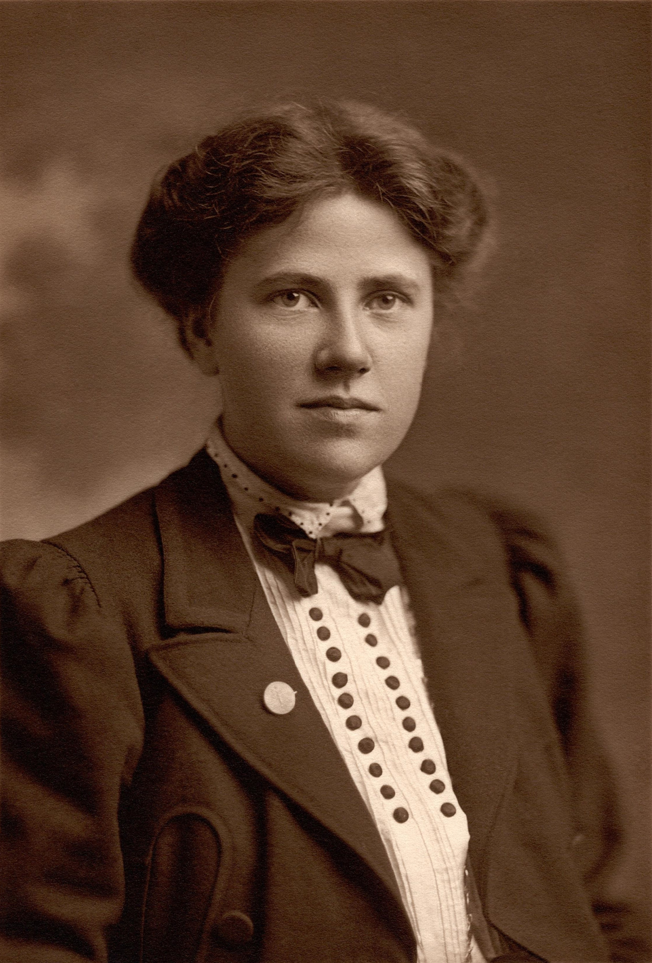 Ray Strachey, between 1906 and 1914